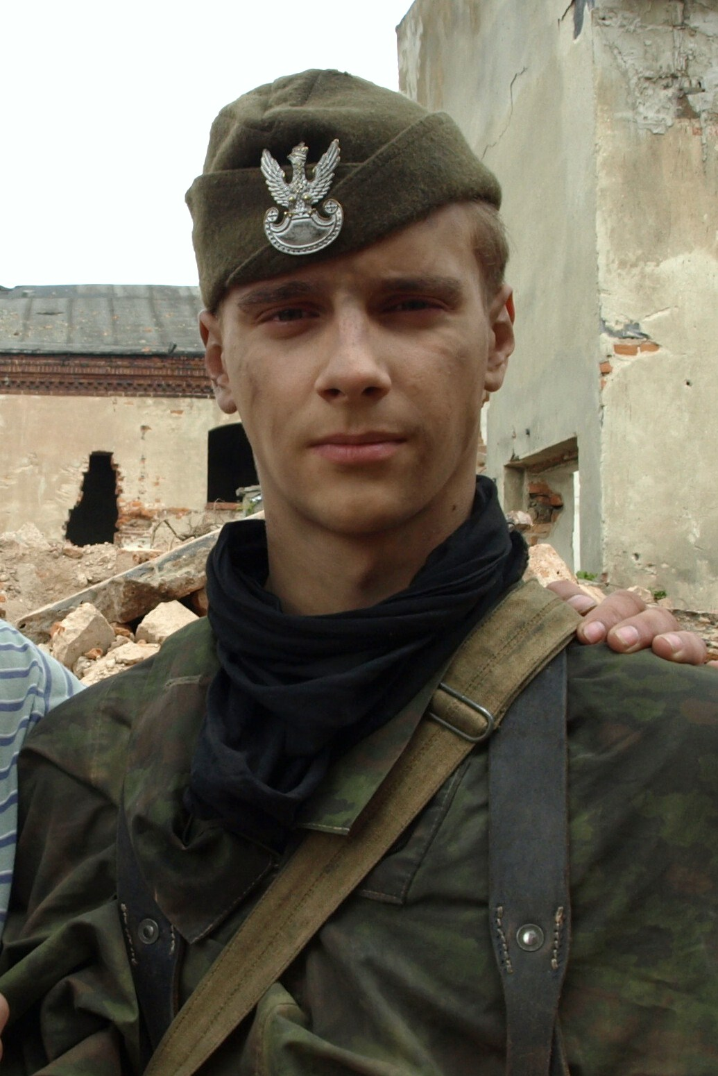 Polish actor Maciej Musiał